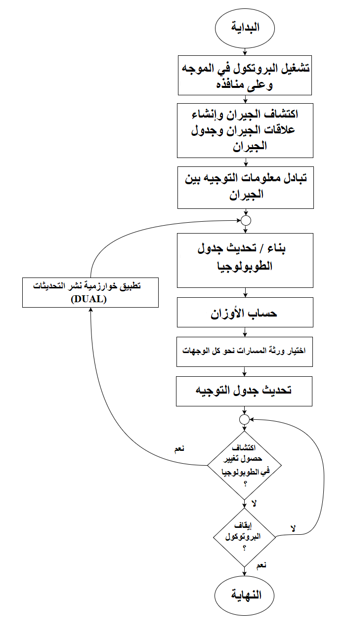 The EIGRP Algorithm.